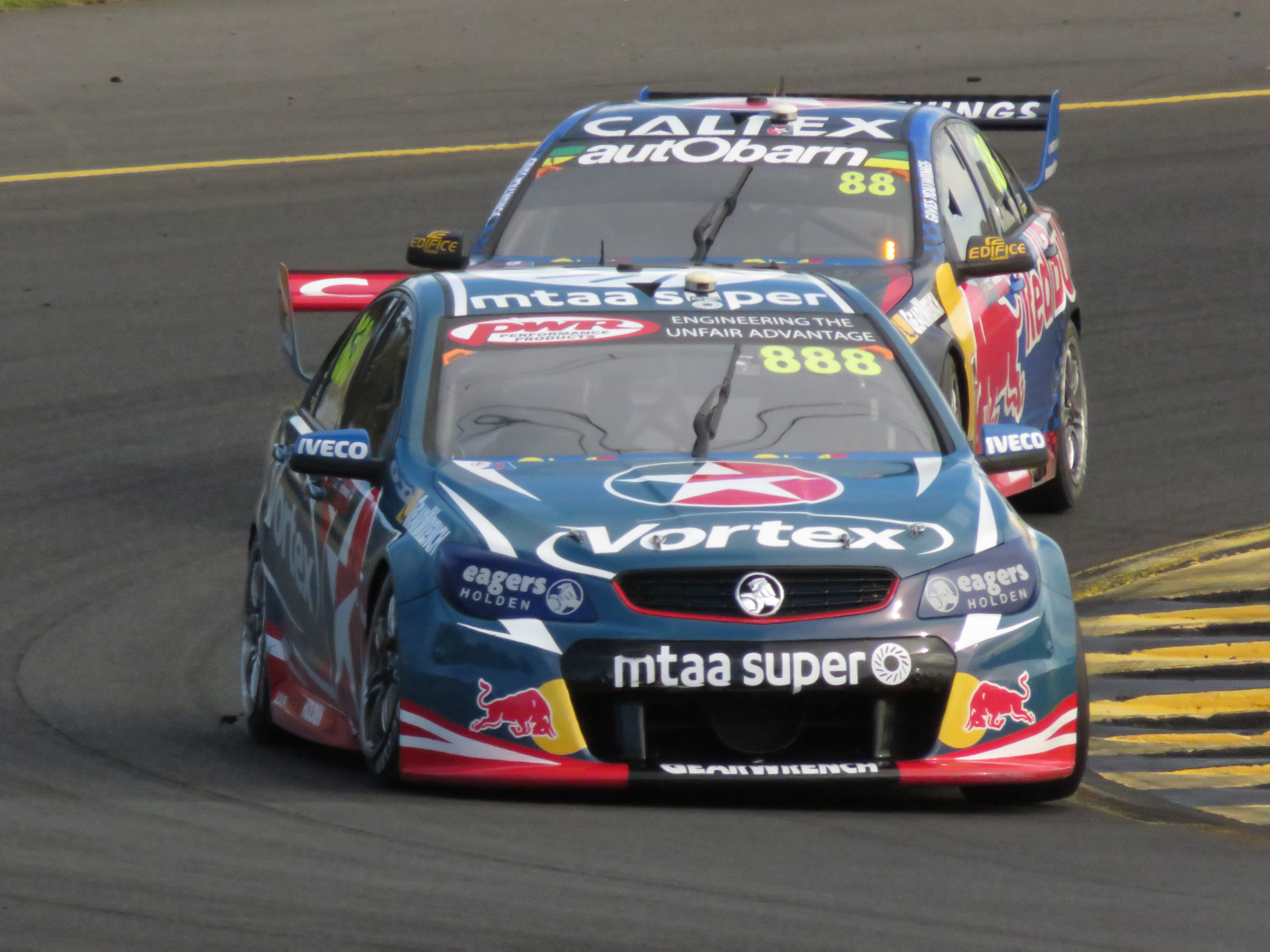 Craig Lowndes in his 600th championship race at the 2016 Red Rooster Sydney SuperSprint